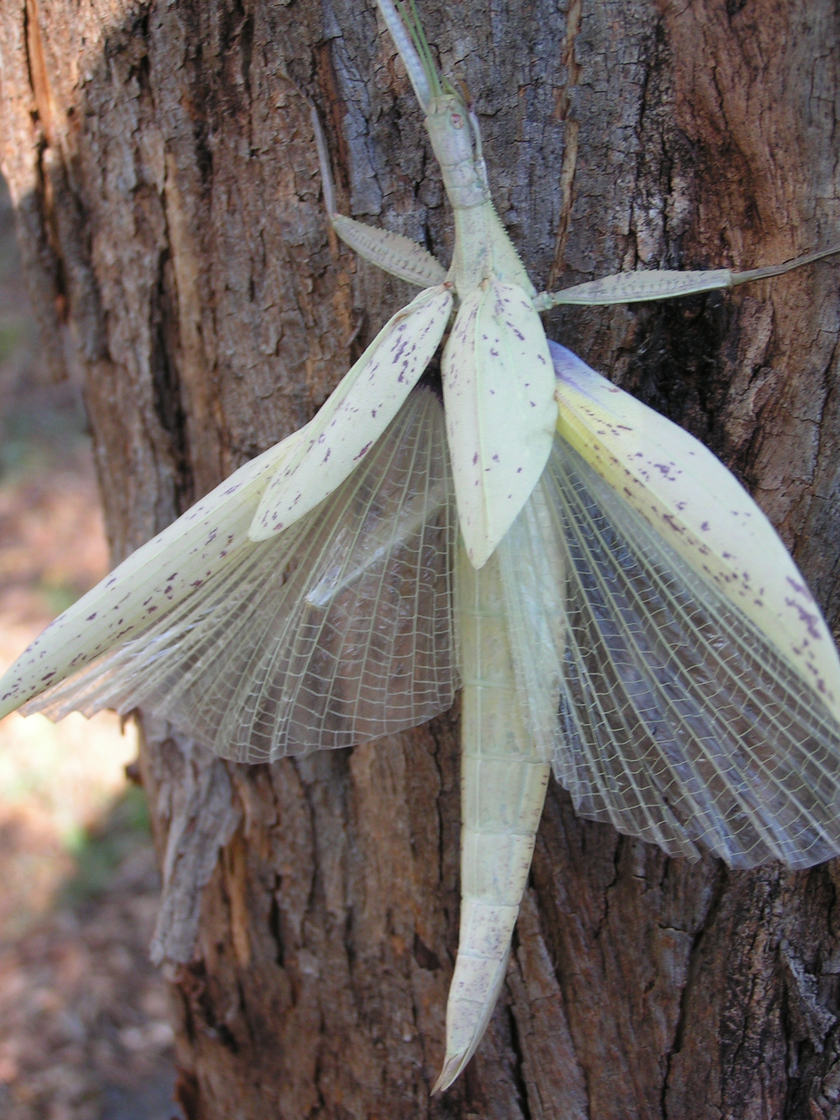 Children's Stick-Insect (Tropidoderus childrenii) near Toowomba, Queensland, Australia. Photographed on 19 February 2007